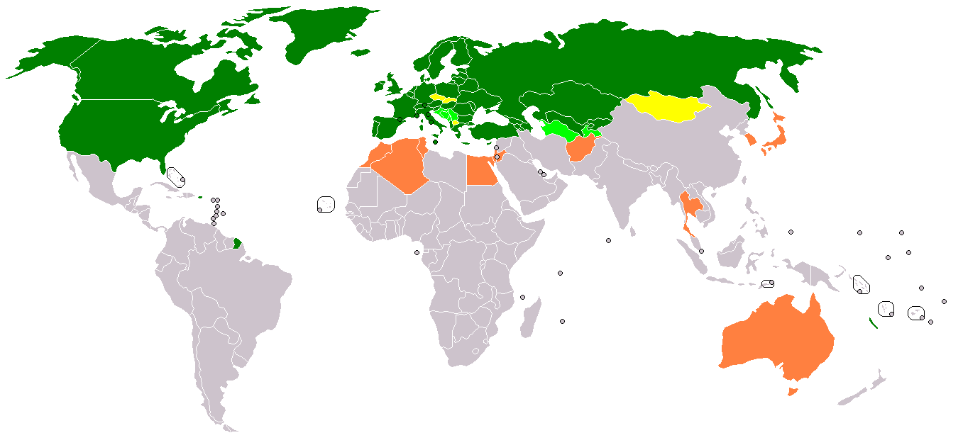 Members and Partners of the Organization for Security and Co-operation in Europe signed Helsinki Accords and Paris Charter. signed Helsinki Accords only. non-signatory. partner for cooperation.